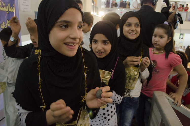 Gargee'an celebration in Museum of Contemporary Art, Ahwaz